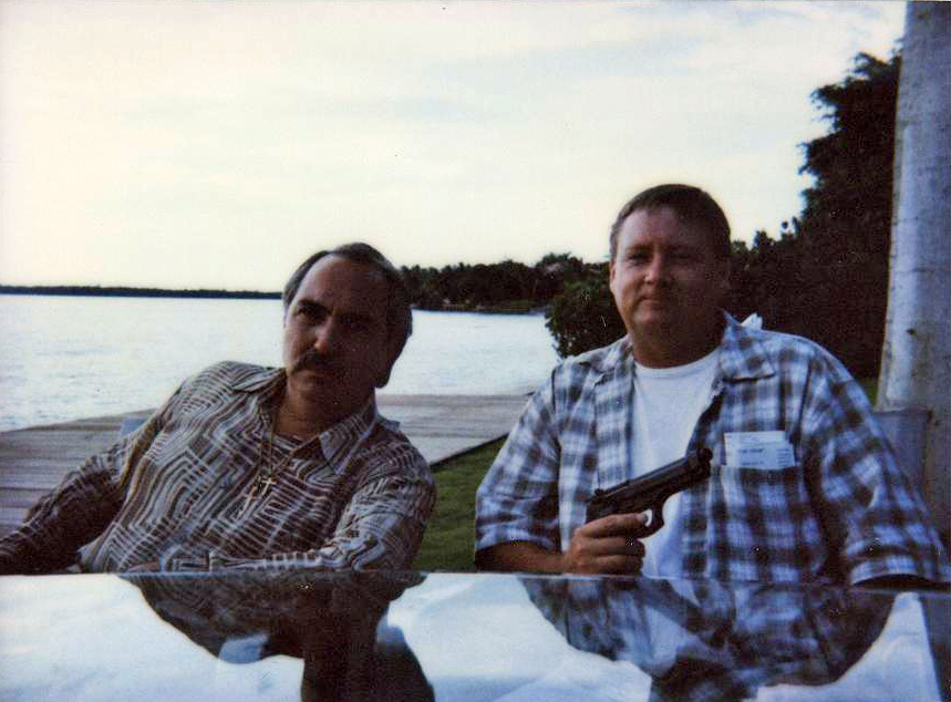 (L-R) Miguel Sandoval and John Bair on-location in Key Biscayne, Florida filming Touchstone Pictures THE CREW starring Burt Reynolds, Richard Dreyfuss, Seymour Cassel and Dan Hedeya.